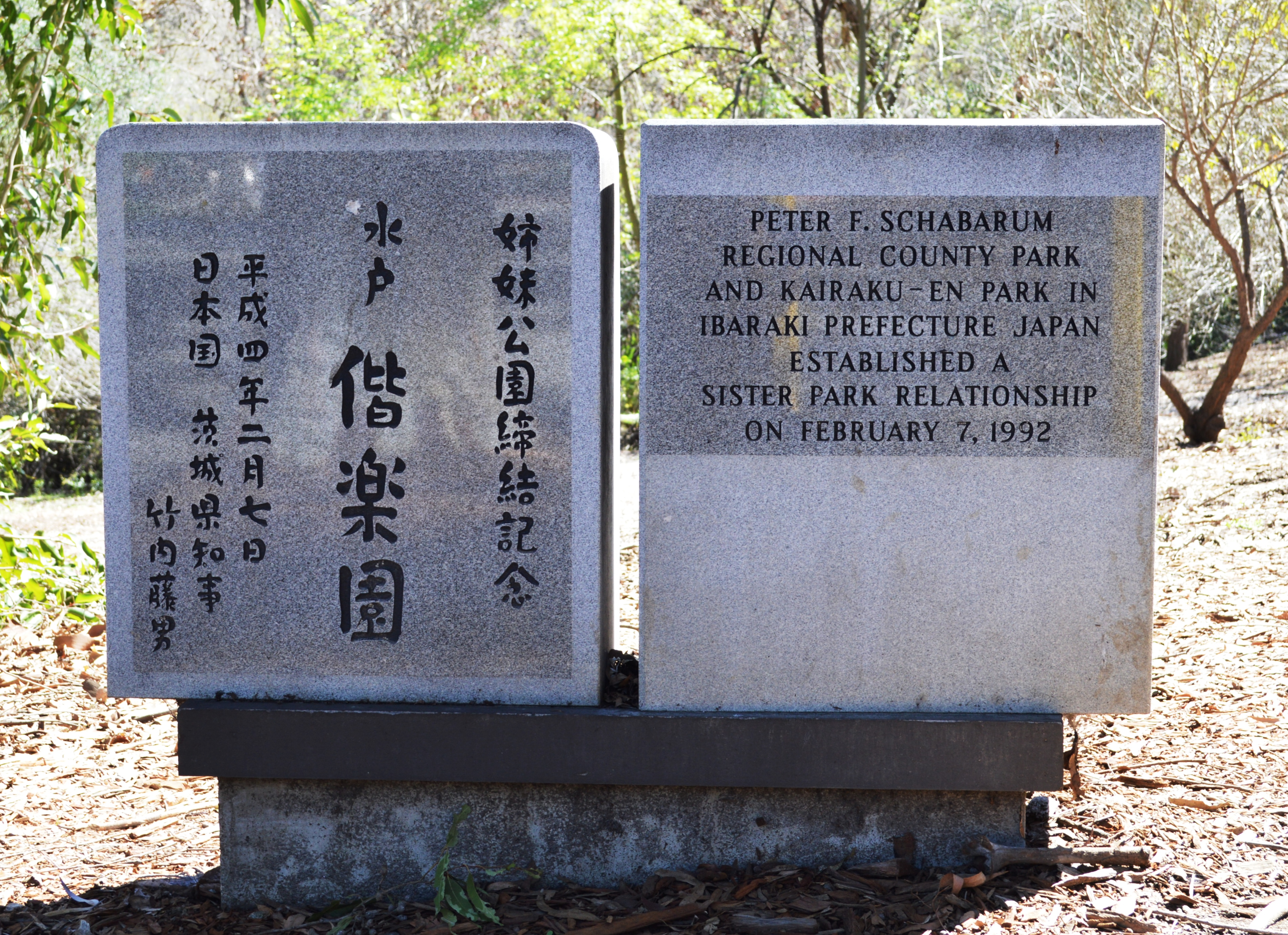 Monument for the establishment of a sister-park relationship between Schabarum Regional Park in Rowland Heights, California, U.S.A. and Kairaku-en in Mito, Ibaraki, Japan, dated February 7, 1992. In 1992, Kairaku-en donated 500 ume (Prunus mume) trees to Schabarum Regional Park. The trees can be seen behind and near this monument.